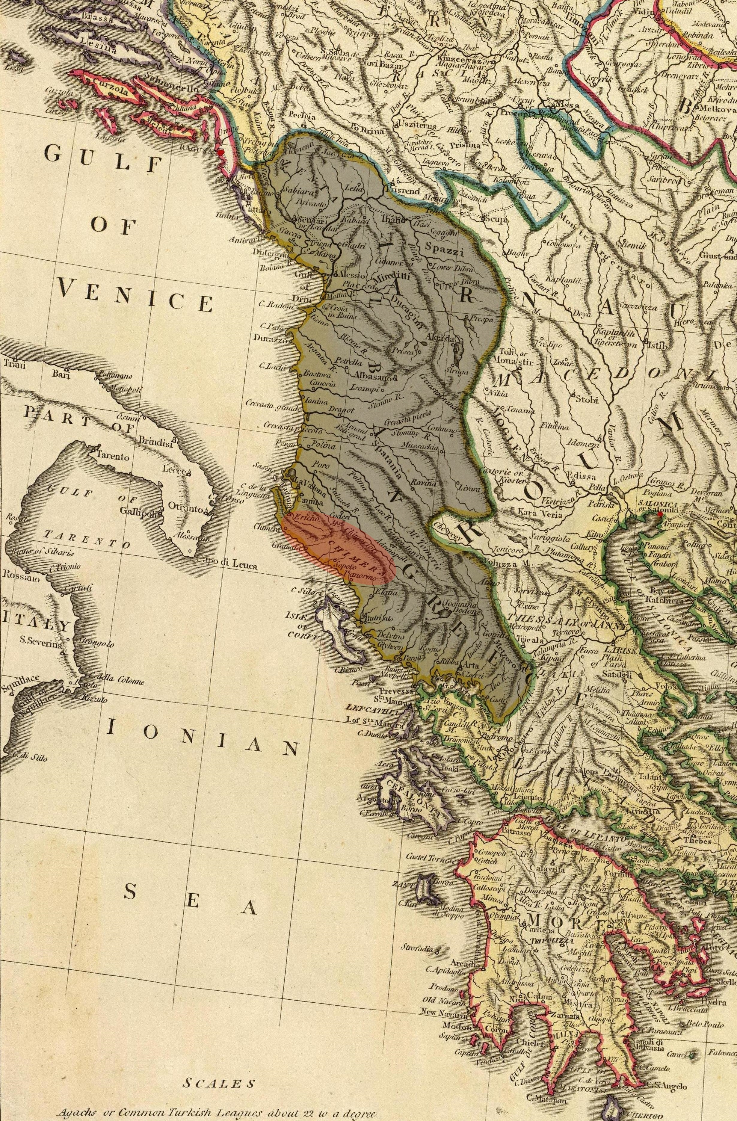 Detail of the Epiro Chameria region (Albania) of the map "European dominions of the Ottomans, or Turkey in Europe", published by W. Faden, Geogr. to the King, and to H.R.H. the Prince of Wales; Charing Cross. London, August 12th, 1795.